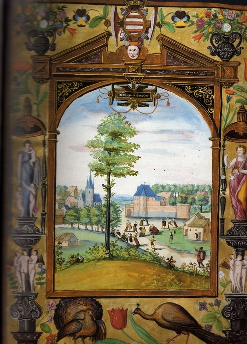 View of Sémeries +/- 1600 - Album de Croÿ